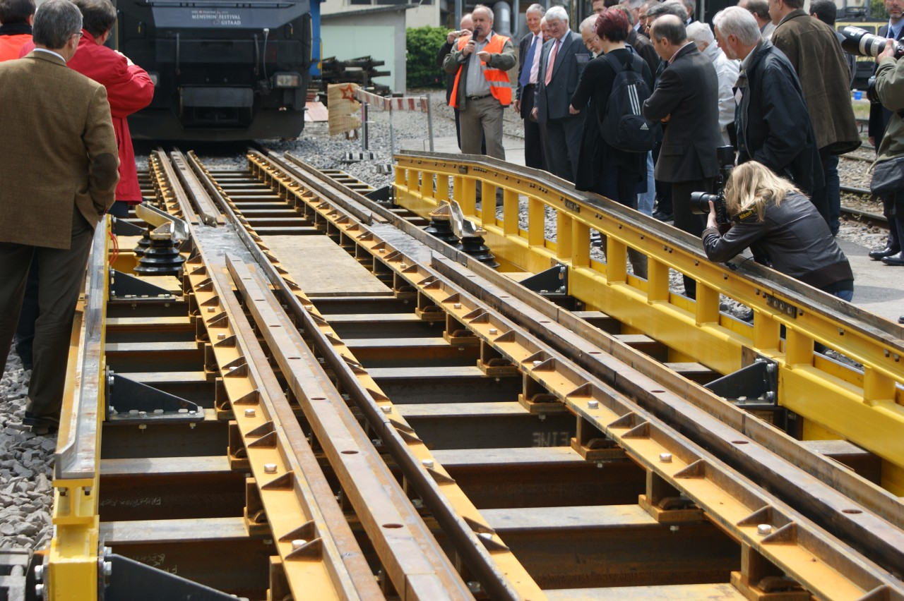 MOB Ge 4/4 8003 stands in the standard gauge part of the gauge changer, that had been installed in Montreux for trials